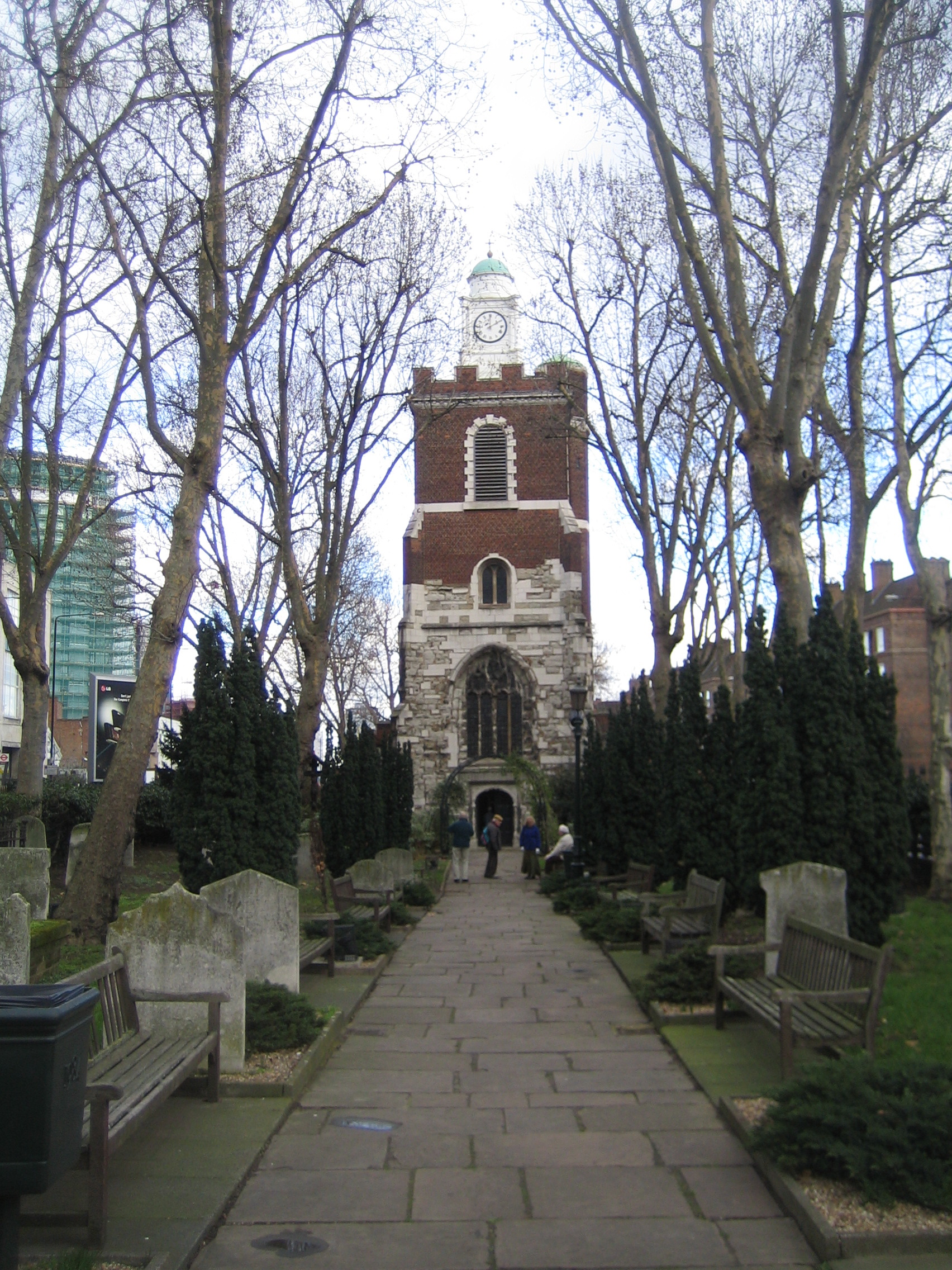 Parish church of St Mary with Holy Trinity, Bow Road, London E3, seen from west-southwest